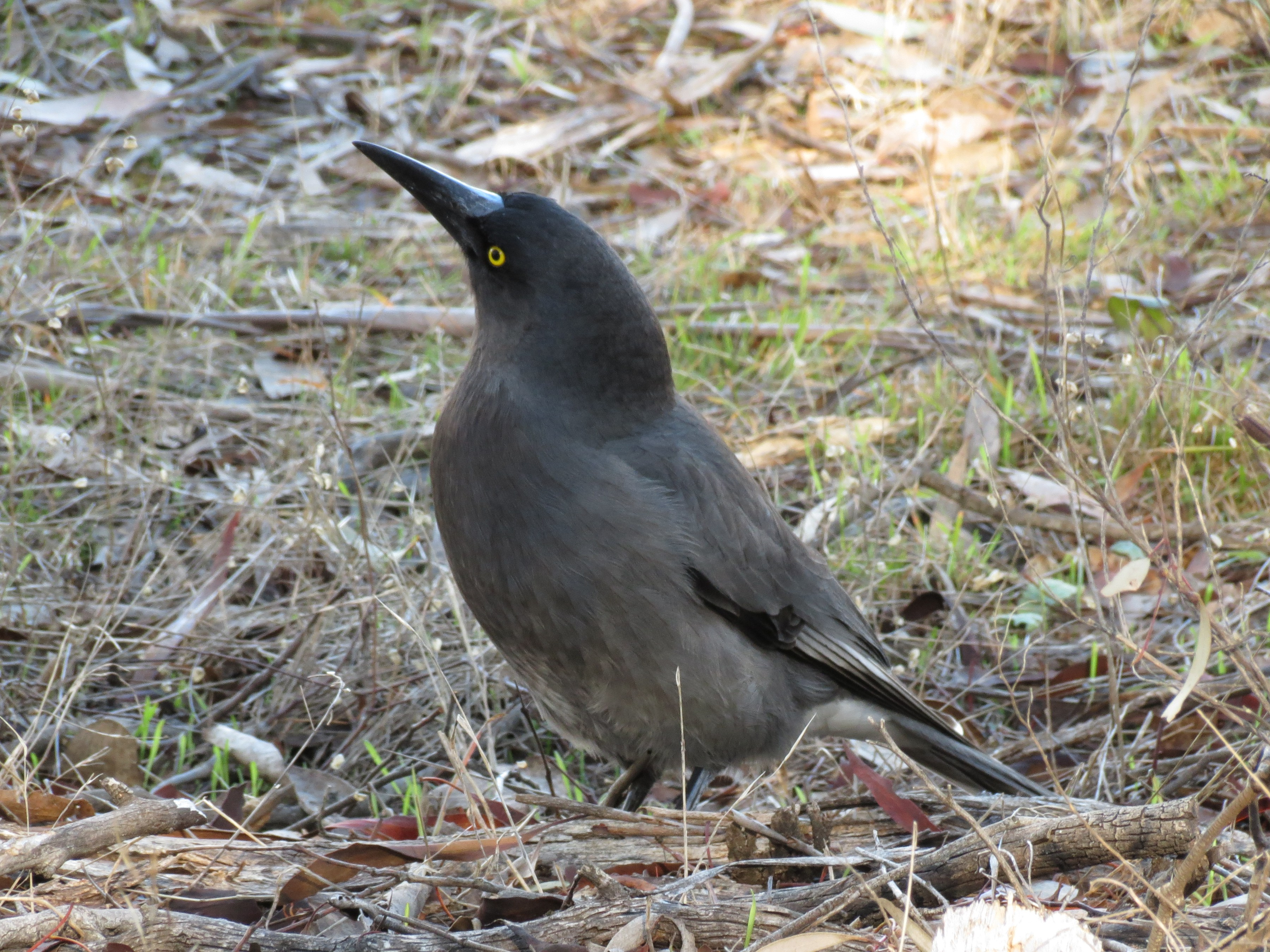 Strepera versicolor (Latham, 1801), Grey Currawong, Aranda Bushland, ACT, 16 June 2013